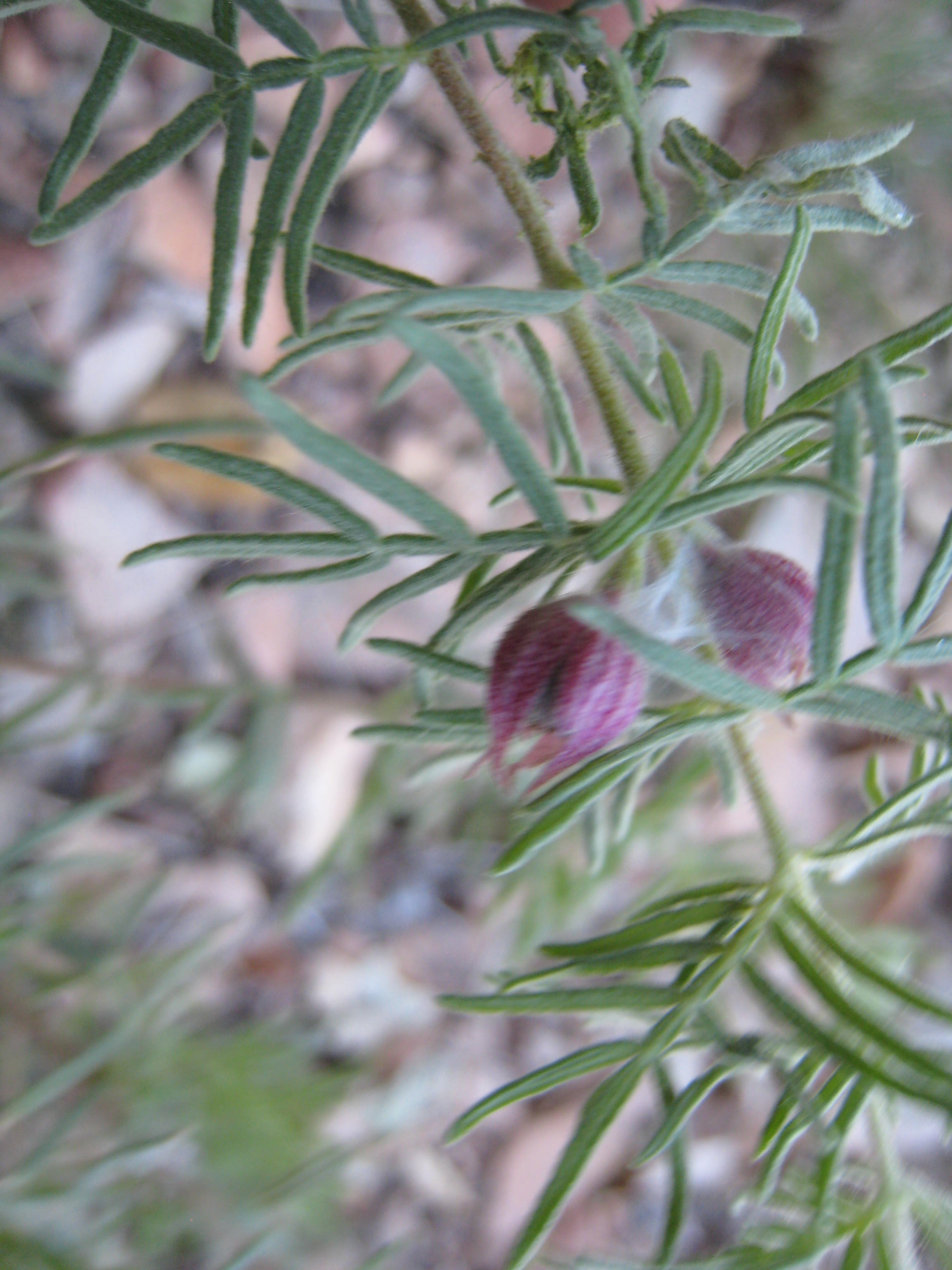 Boronia lanuginosa, Bradshaw Field Training Area, the Kimberley, NT, Australia